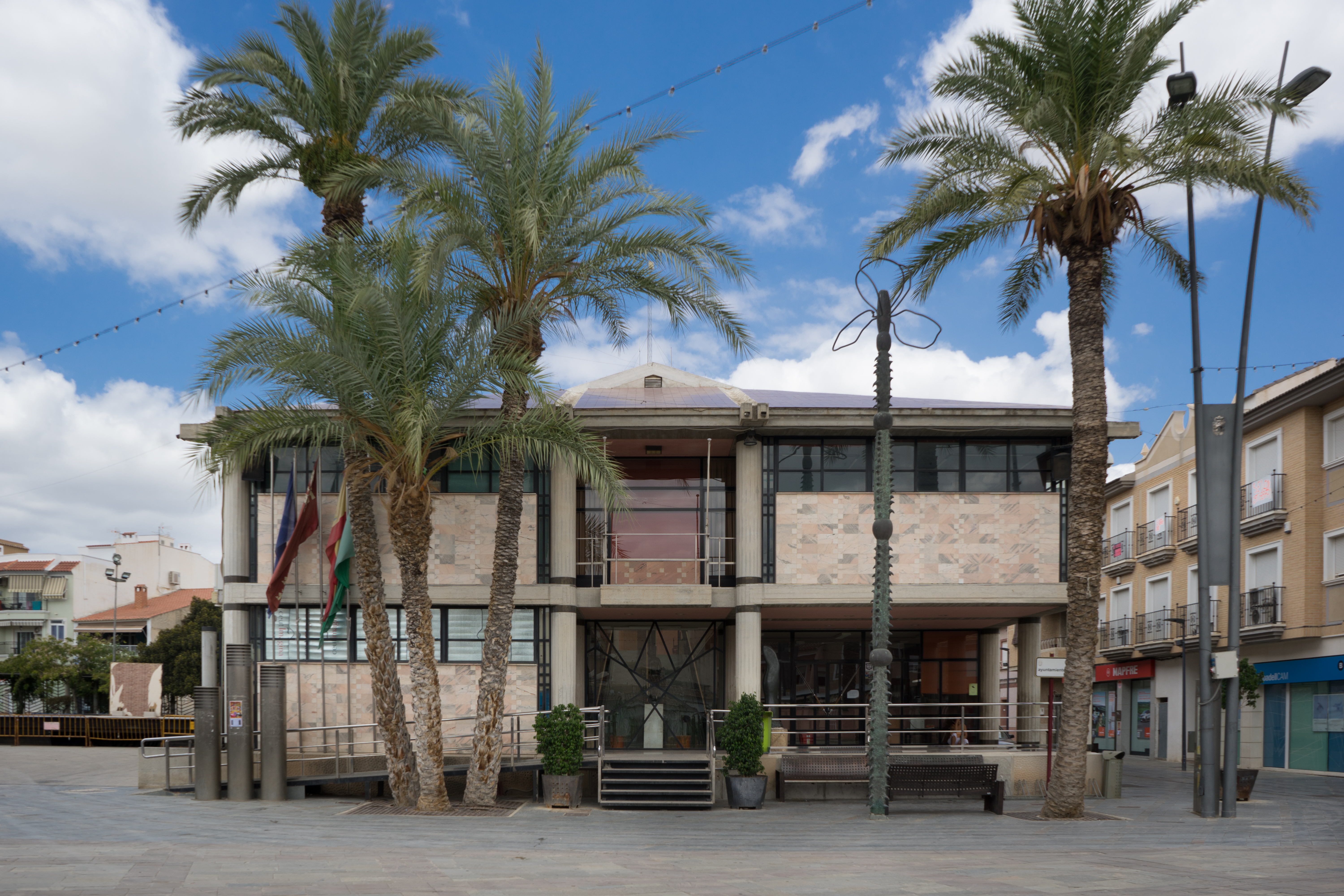 Town Hall in Ceuti